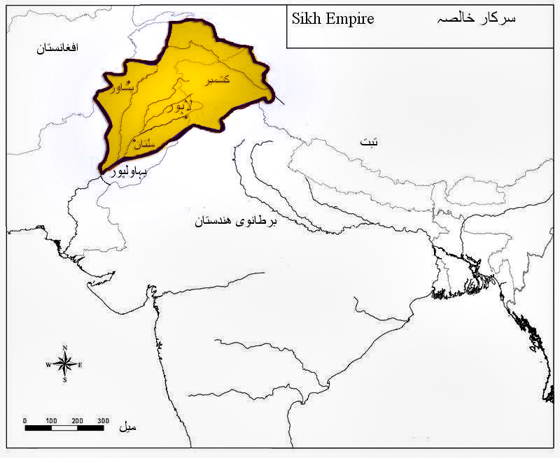 Boundaries of Maharaja Ranjit Singh